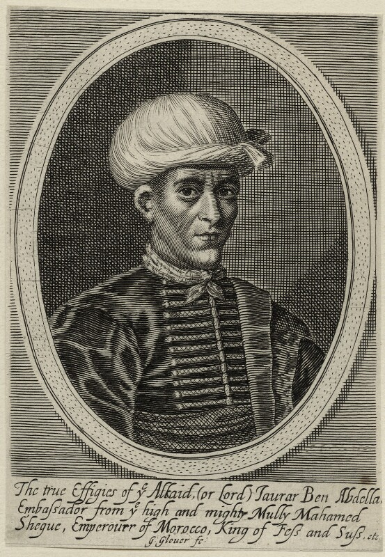 «The true effigies of the Alkaid (or Lord) Jaurar Ben Abdel [Jaudar Ben Abdel] embassador from the high and mighty Mully Mohamed Sheque [Mully Mohamed Sherif], Emperourr of Morocco, King of Fess and suss» Jaudar Ben Abdel, Ambassador of Morocco in England, 1637, from Muhammad II of Morocco derivative work of this file: Ambassador Jawdar 1637 (enhanced).jpg